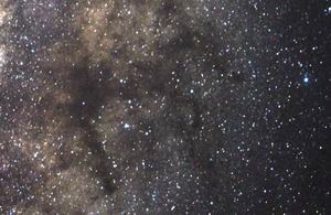 Photo of the Great Dark Horse Nebula.